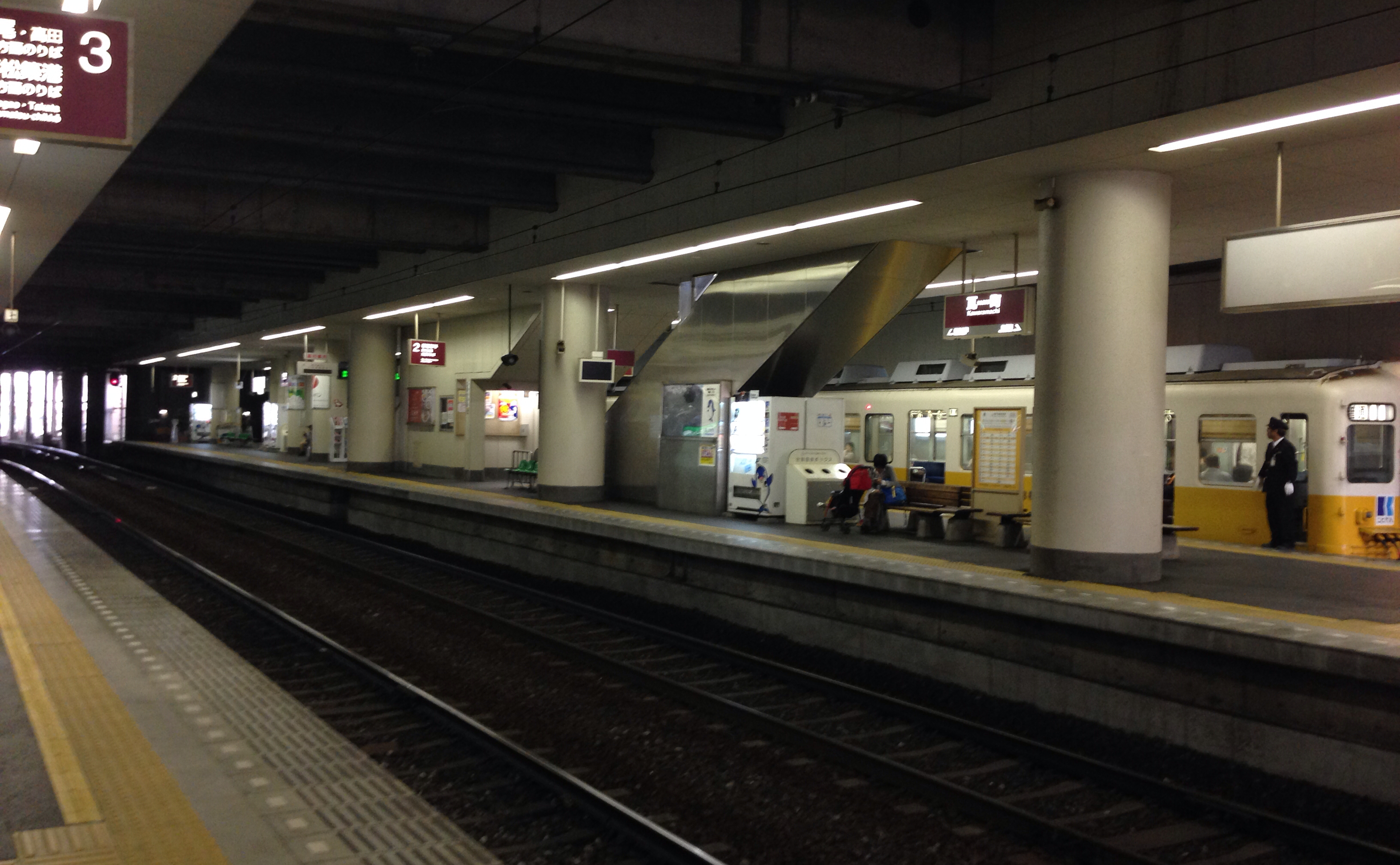 Kotoden Kawaramachi Station.(Train stop on the first floor.) Taken from the platform from Line 3. Trains stop in Kotohira line Takamatsu-chikko bound local trains.